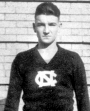 Cartwright Carmichael, University of North Carolina basketball player (1921-1924). All-America 1923 and 1924. Helms Athletic Foundation National Champion 1924.